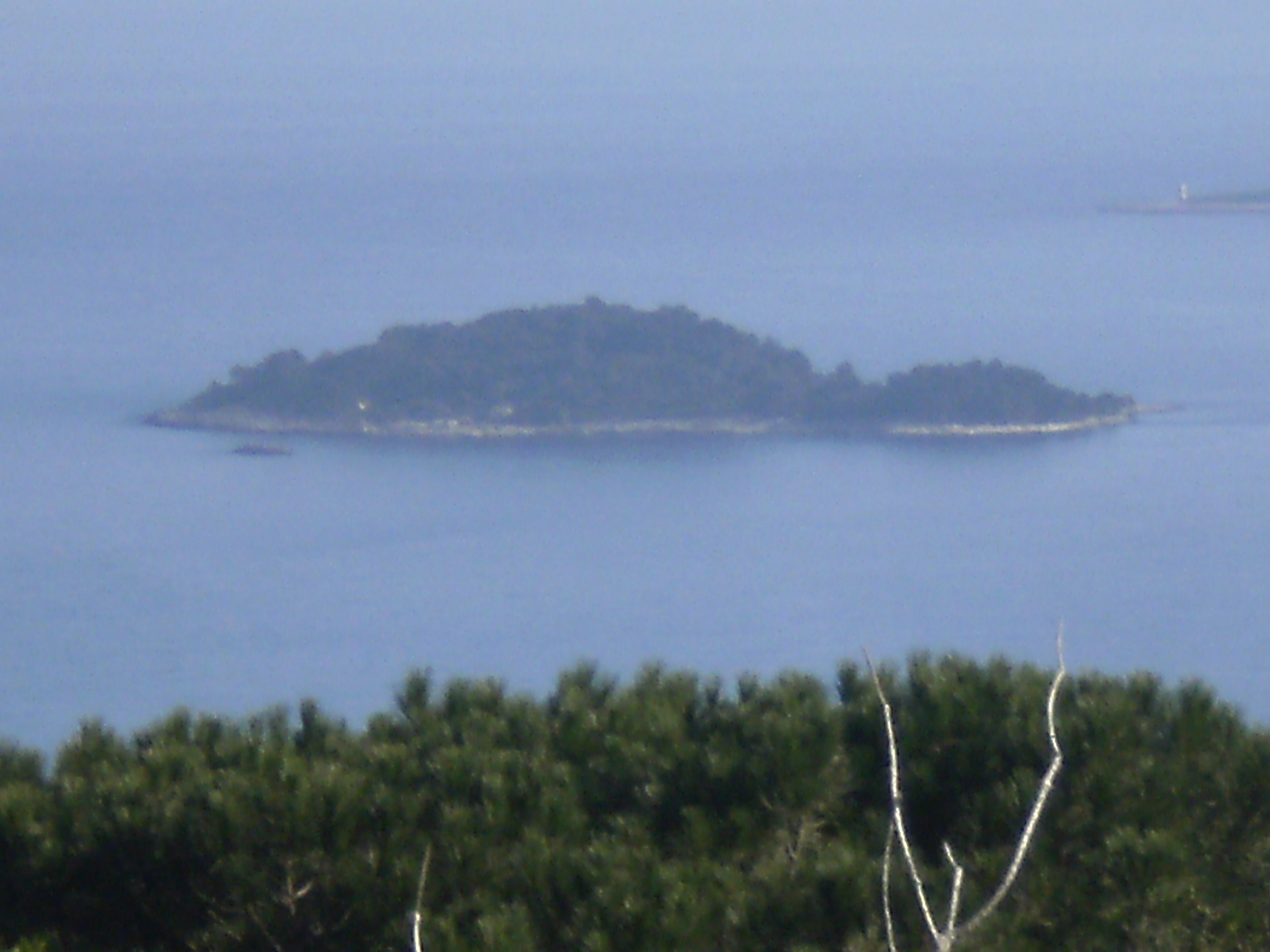 Sutvara, Škrpinjak andRažnjić OLYMPUS DIGITAL CAMERA